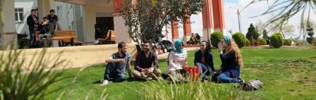 Kilis 7 Aralık University Arts and Sciences Faculty Building